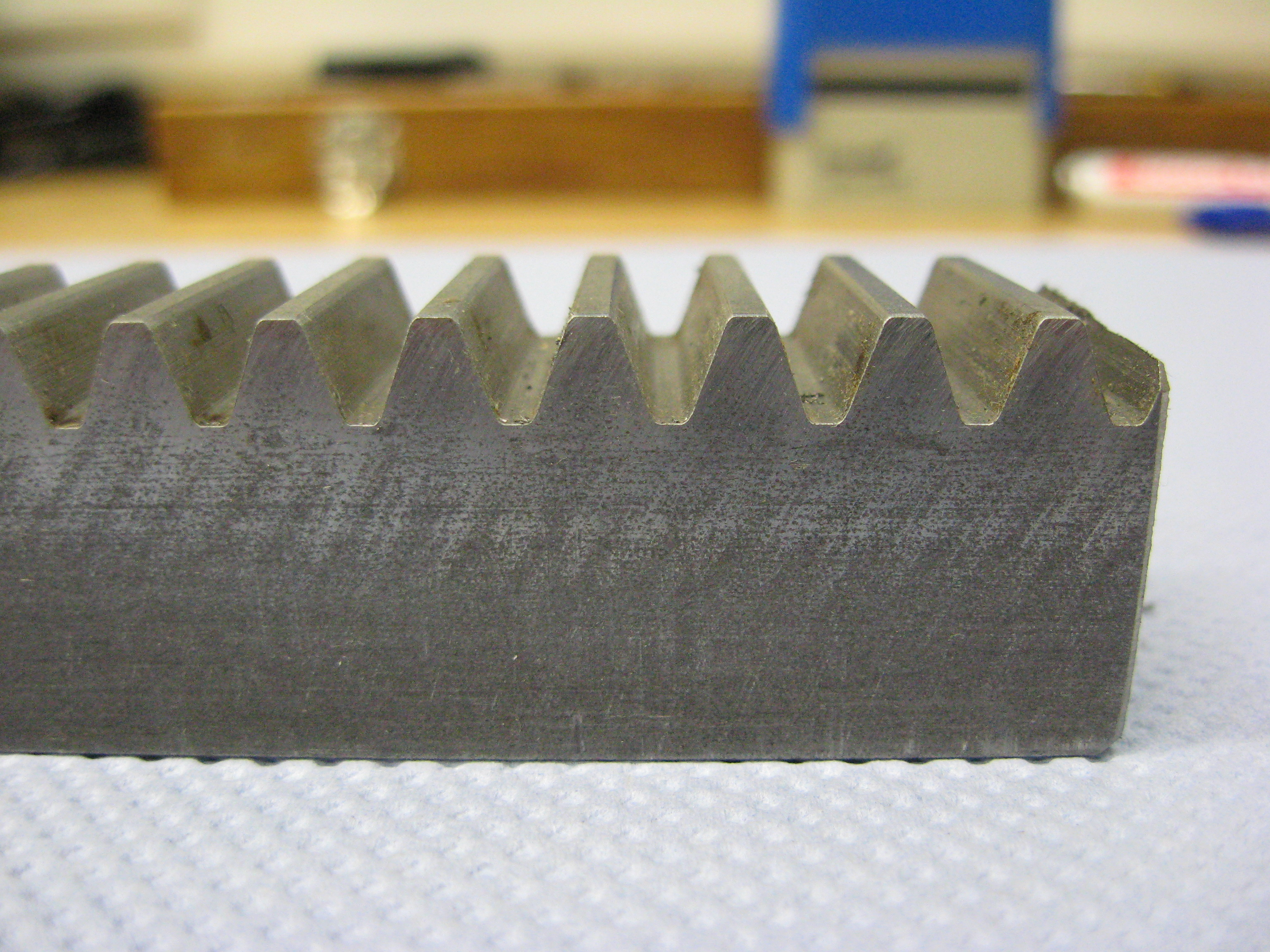 Teeth of a Gear Rack